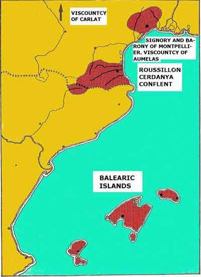 map of the lands of the Crown of Majorca (14th C)